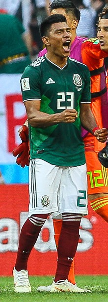 Jesús Gallardo